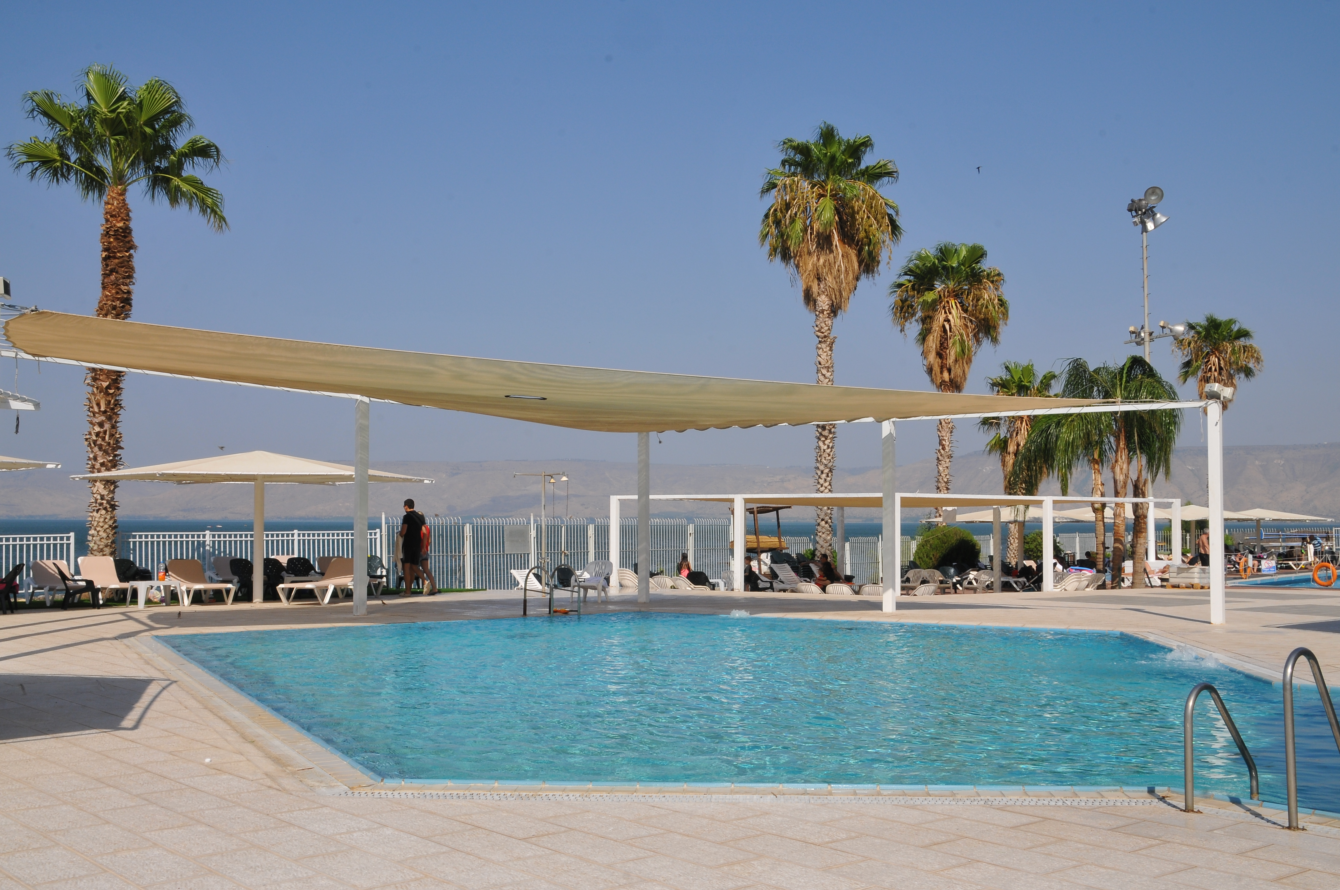 בריכה תרמו-מינרלית חיצונית